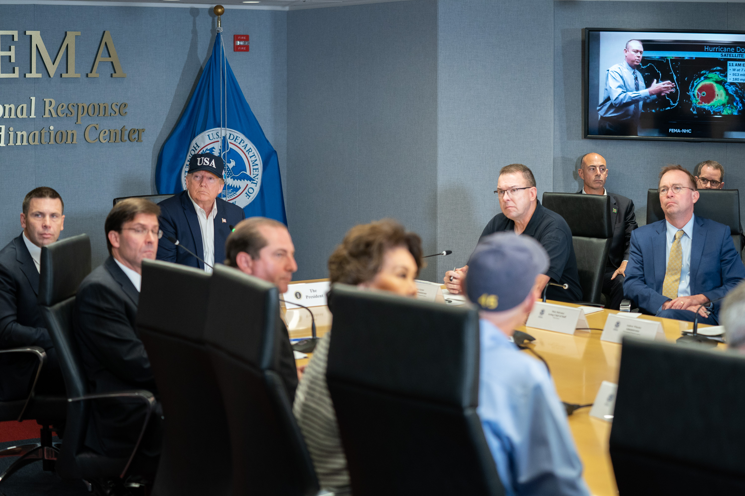 President Donald J. Trump, joined by Acting Secretary of the Department of Homeland Security Kevin McAleenan and Acting FEMA Administrator Pete Gaynor, attends a briefing Sunday, Sept. 1, 2019, on the current directional forecast of Hurricane Dorian at the Federal Emergency Management Agency (FEMA) headquarters in Washington, D.C. (Official White House Photo by Shealah Craighead)